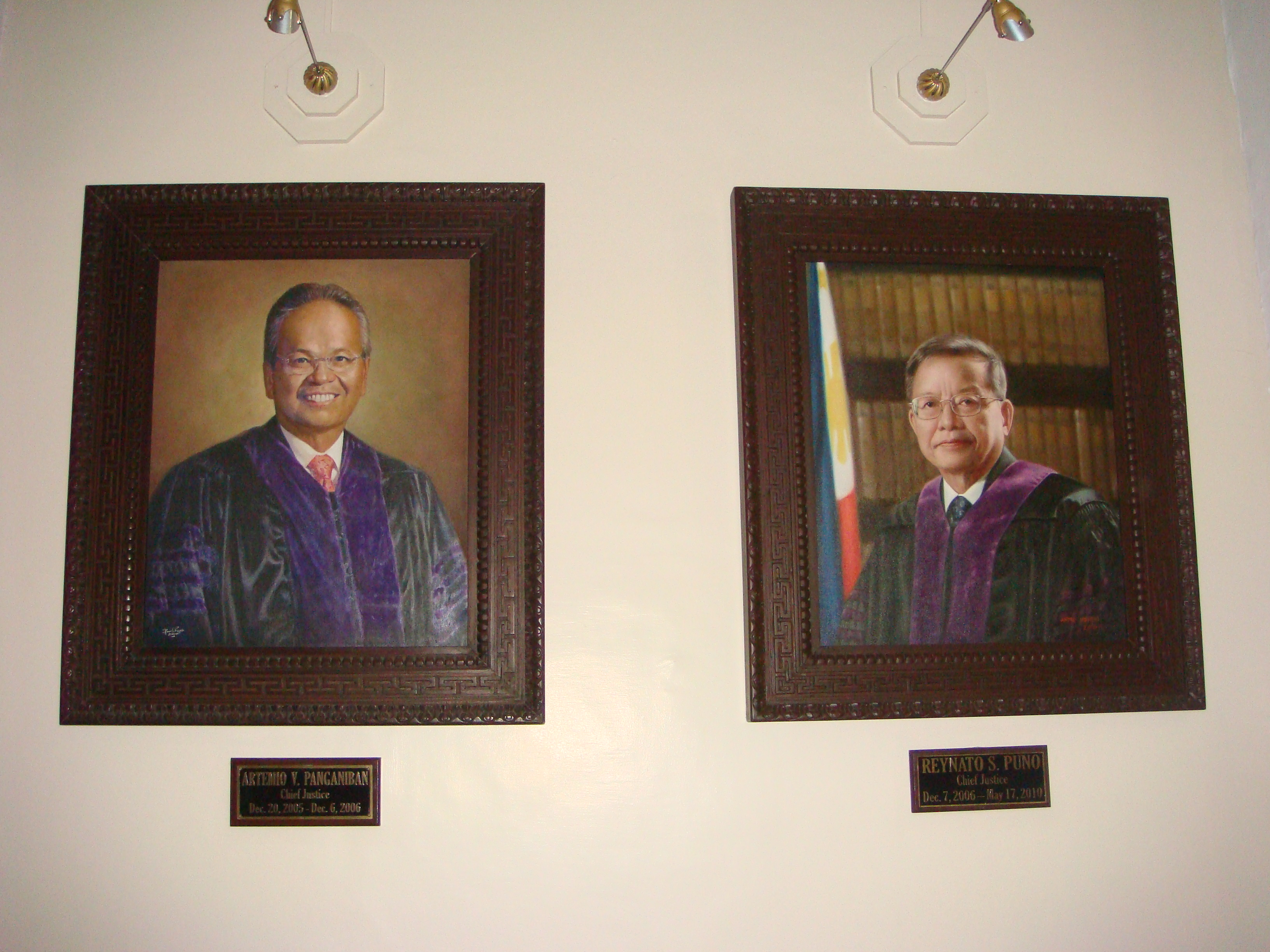 Portraits of Chief Justices Artemio Panganiban and Reynato S. Puno